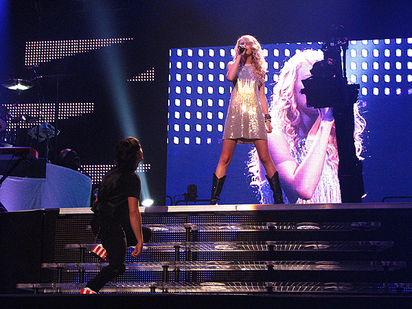 Jonas Brothers and Taylor Swift